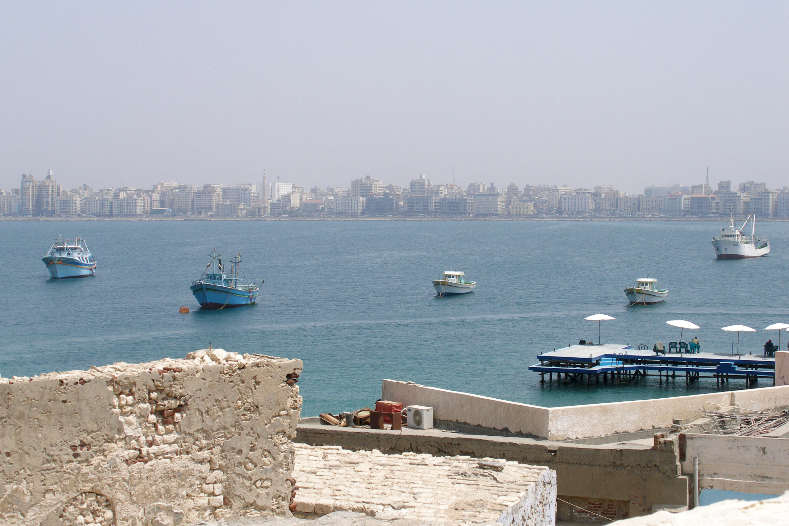 Alexandria (population of 3.5 to 5 million), is the second-largest city in Egypt, and its largest sea port. Alexandria extends about 20 miles (32 km) along the coast of the Mediterranean sea in north-central Egypt. It is home to the Bibliotheca Alexandrina, the New Library of Alexandria, and is an important industrial centre because of its natural gas and oil pipelines from Suez. The city of Alexandria was named after its founder, Alexander the Great, and as the seat of the Ptolemaic rulers of Egypt, quickly became one of the greatest cities of the Hellenistic world - second only to Rome in size and wealth.